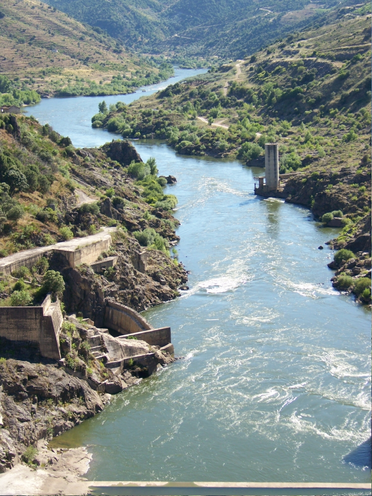 View of Douro river from Bemposta Dam (Bragança, Portugal).